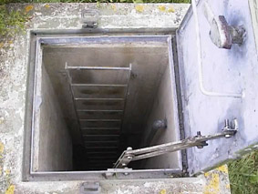 Tranwell bunker hatch